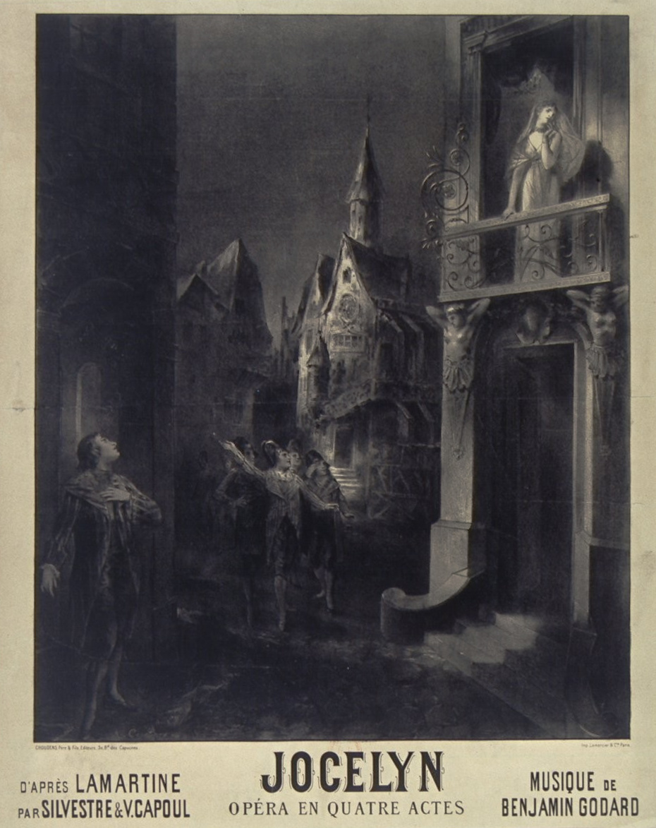 Scene of the opera "Jocelyn" by Benjamin Godard.